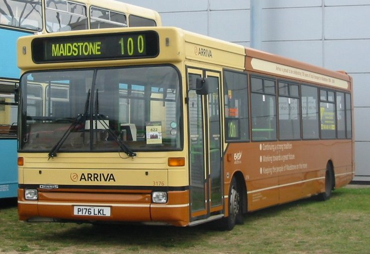 Arriva Southern Counties' 3176 (P176 LKL), a Dennis Dart SLF/Plaxton Pointer 1 in a special livery for the centenary of Maidstone's buses.